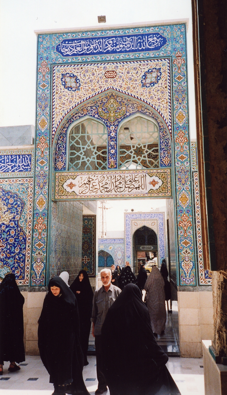 Said Zainab shrine, near Damascus, Syria.